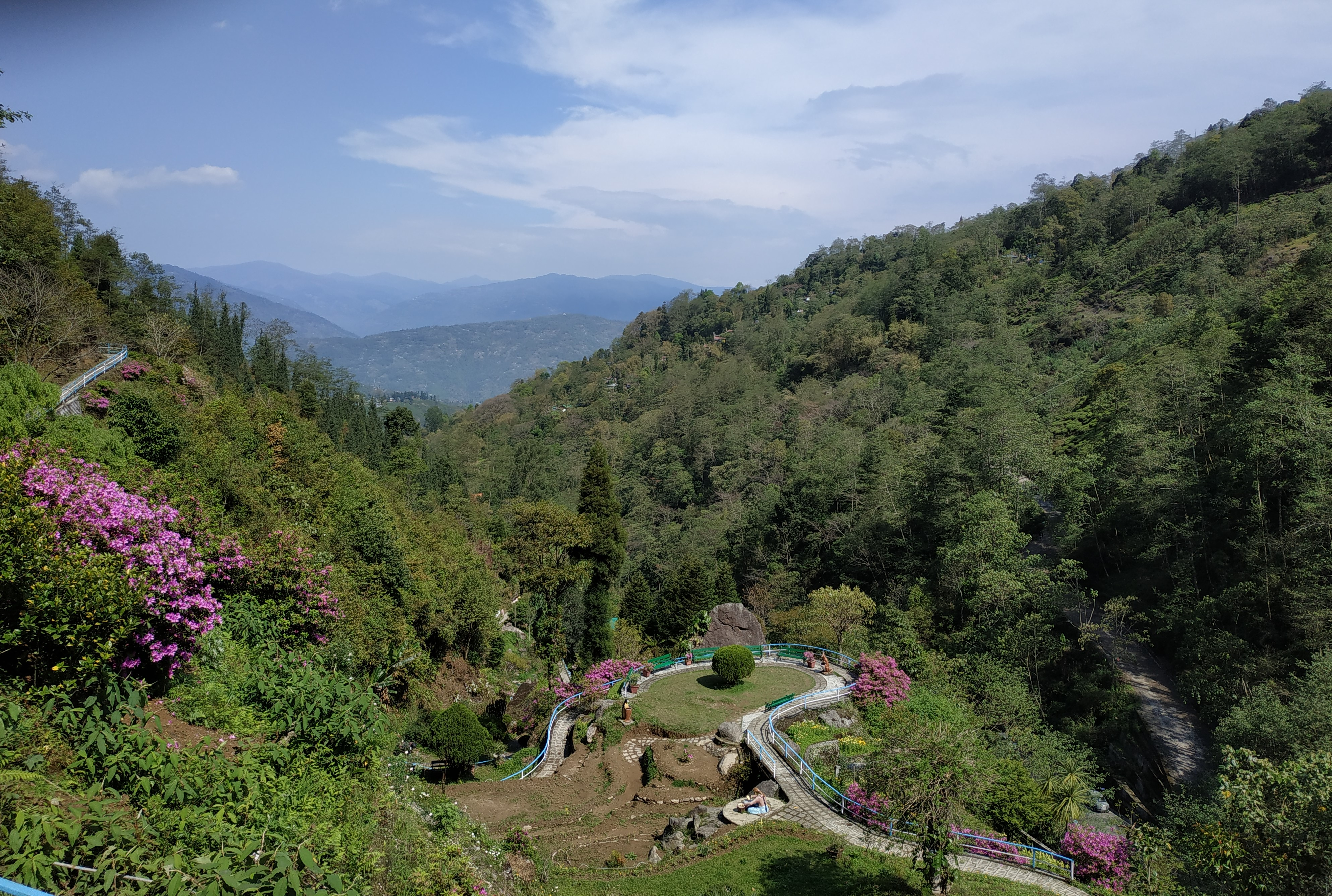 The Rock Garden or Barbotey Rock Garden at Chunnu Summer Falls and Ganga Maya Park is a tourist attraction in the hilly town of Darjeeling in the state of West Bengal, India.